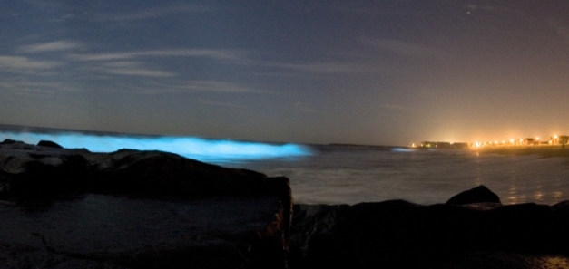 bioluminescent dinoflagellates producing light in breaking waves at Manasquan, New Jersey